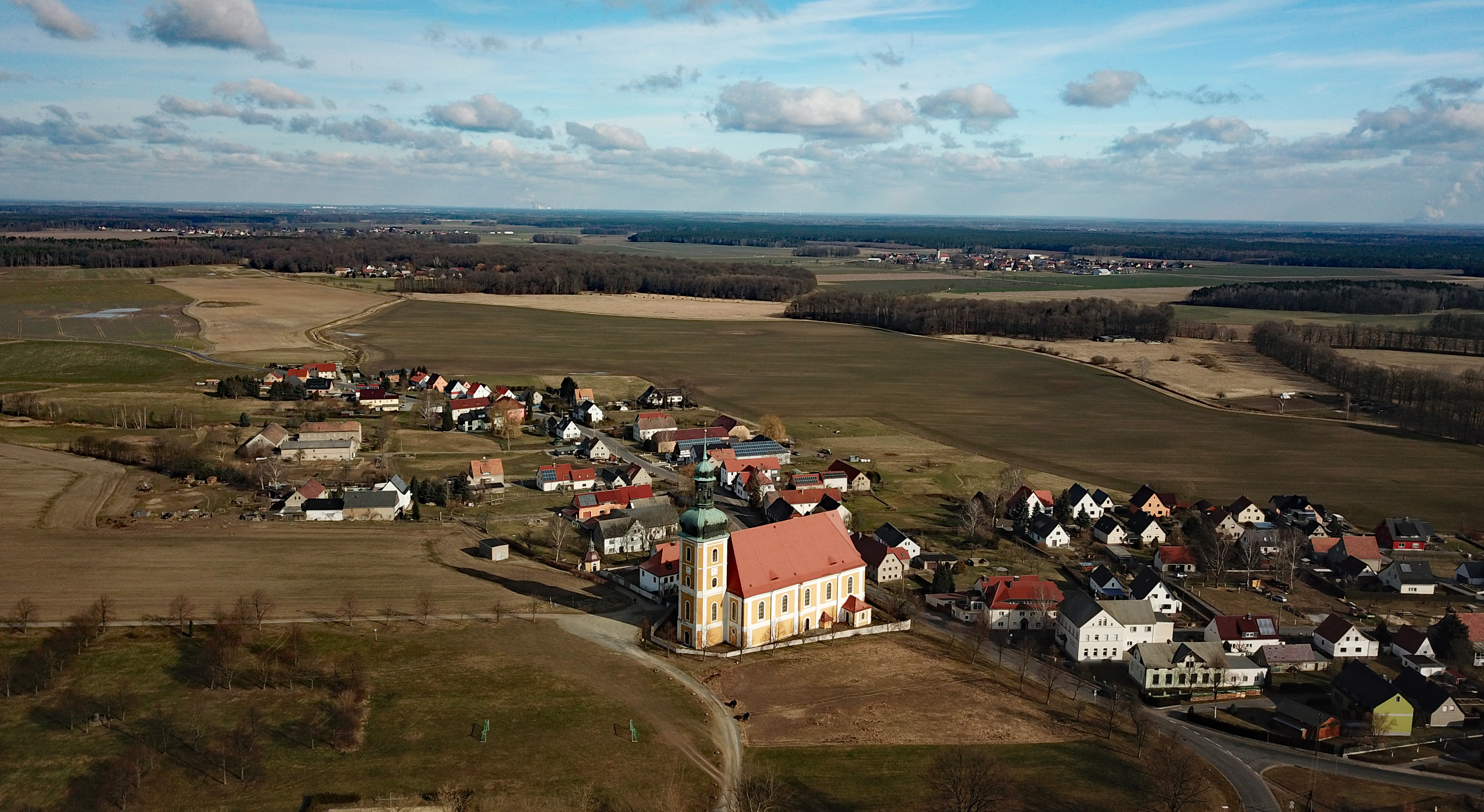 Rosenthal (Ralbitz-Rosenthal, Saxony, Germany) Hornjoserbsce: Powětrowy wobraz Róžanta.